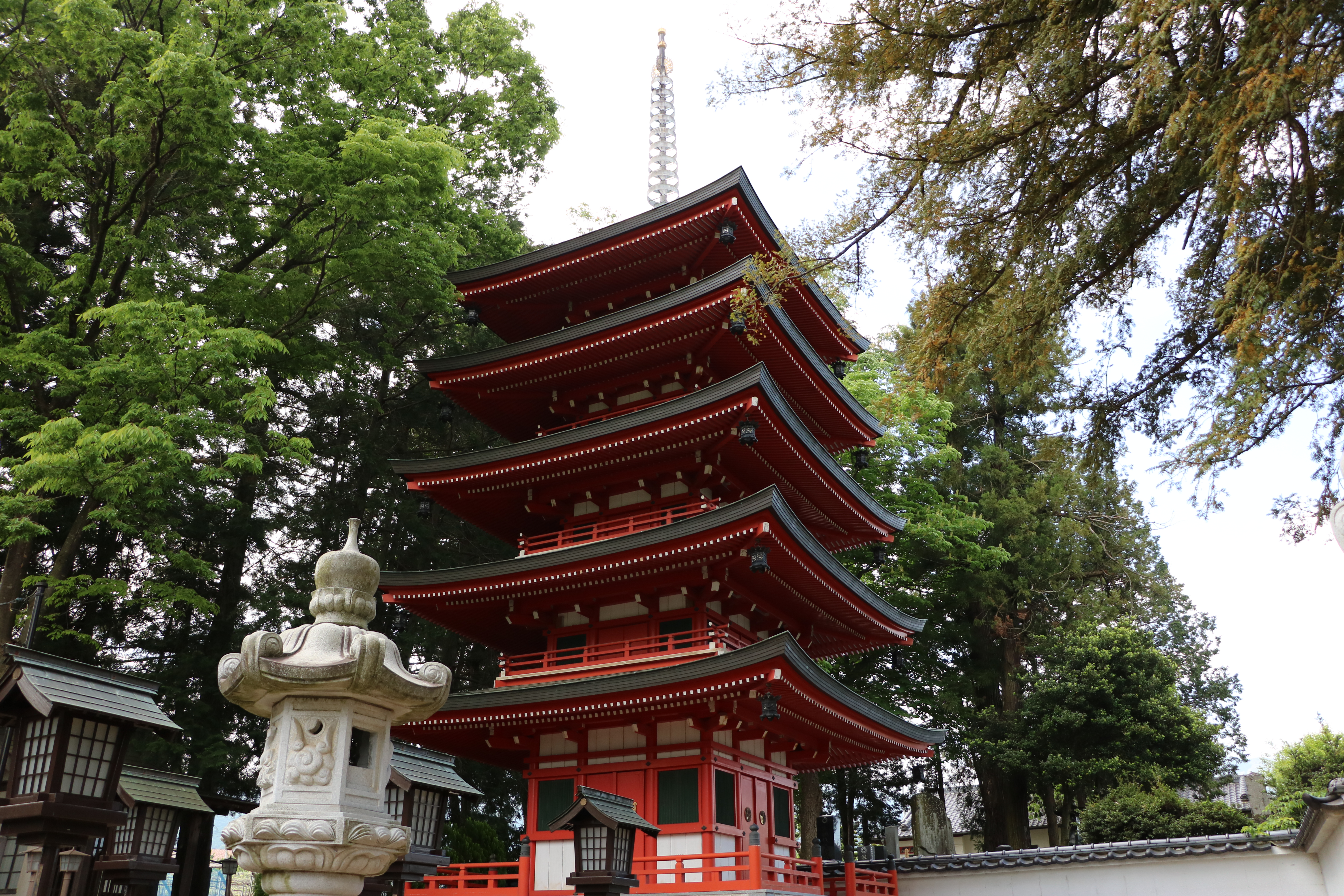 Jorin-ji temple (Fuefuki city), five-storied pagoda